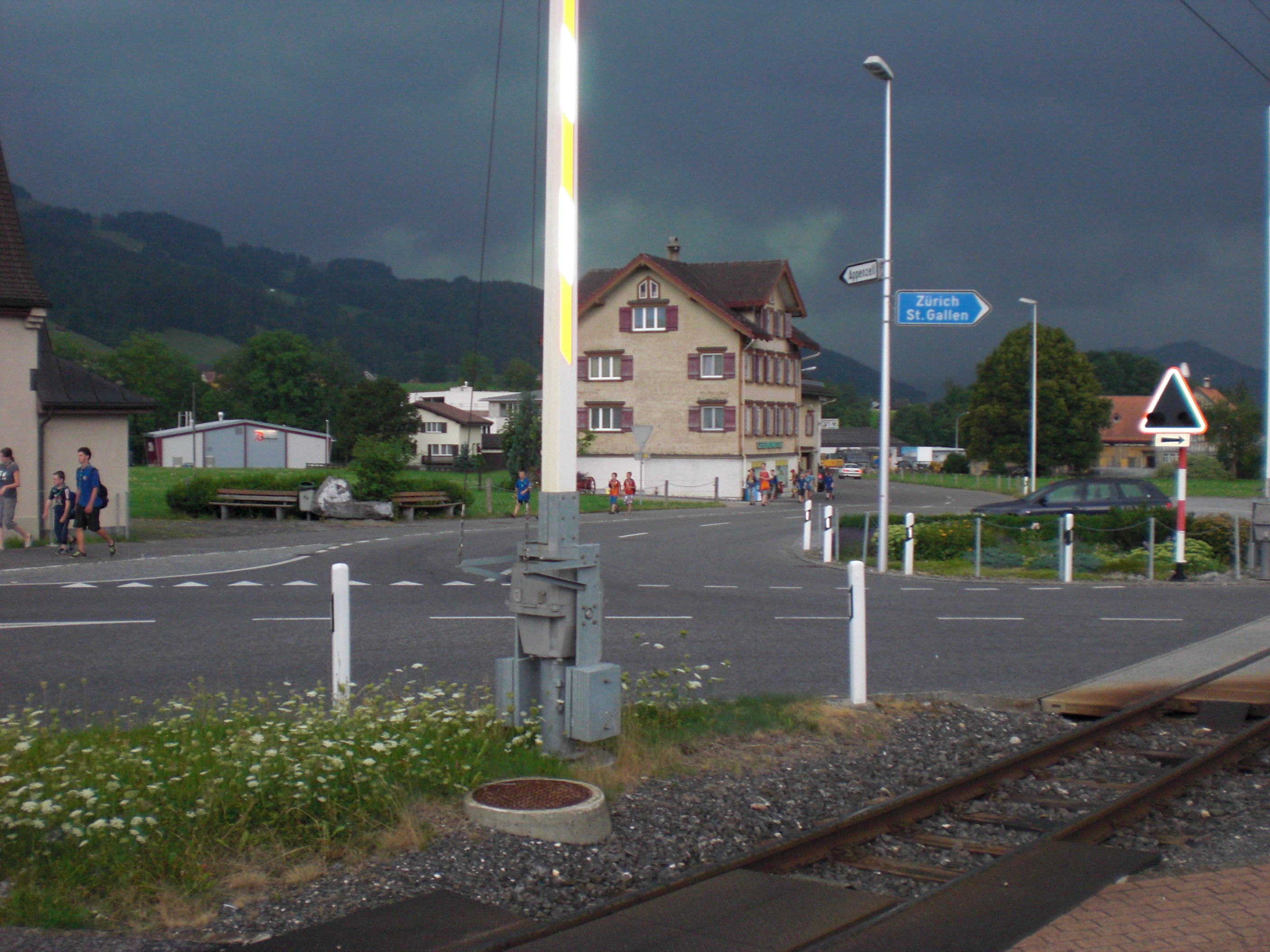 Hiking near Schwende, AI, Switzerland